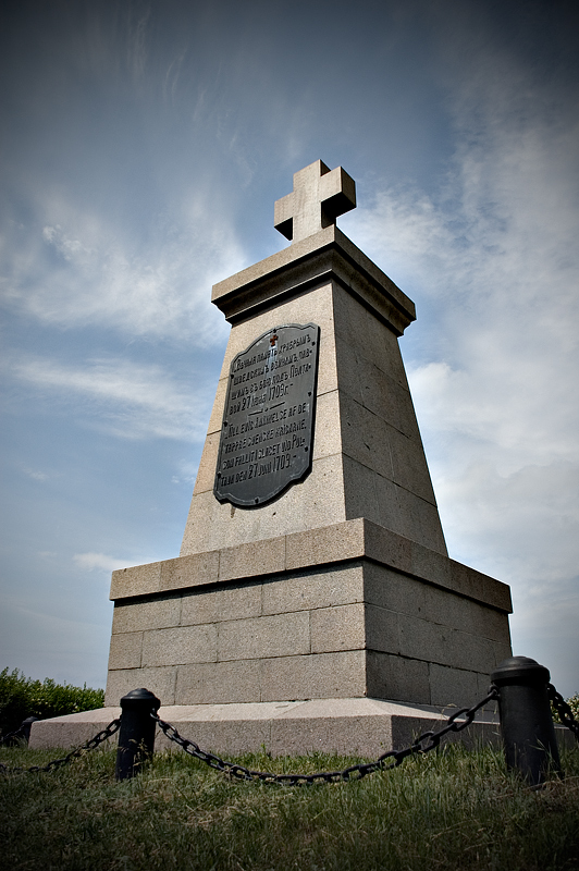 Monument over deceased Swedish Soldiers at Poltava.